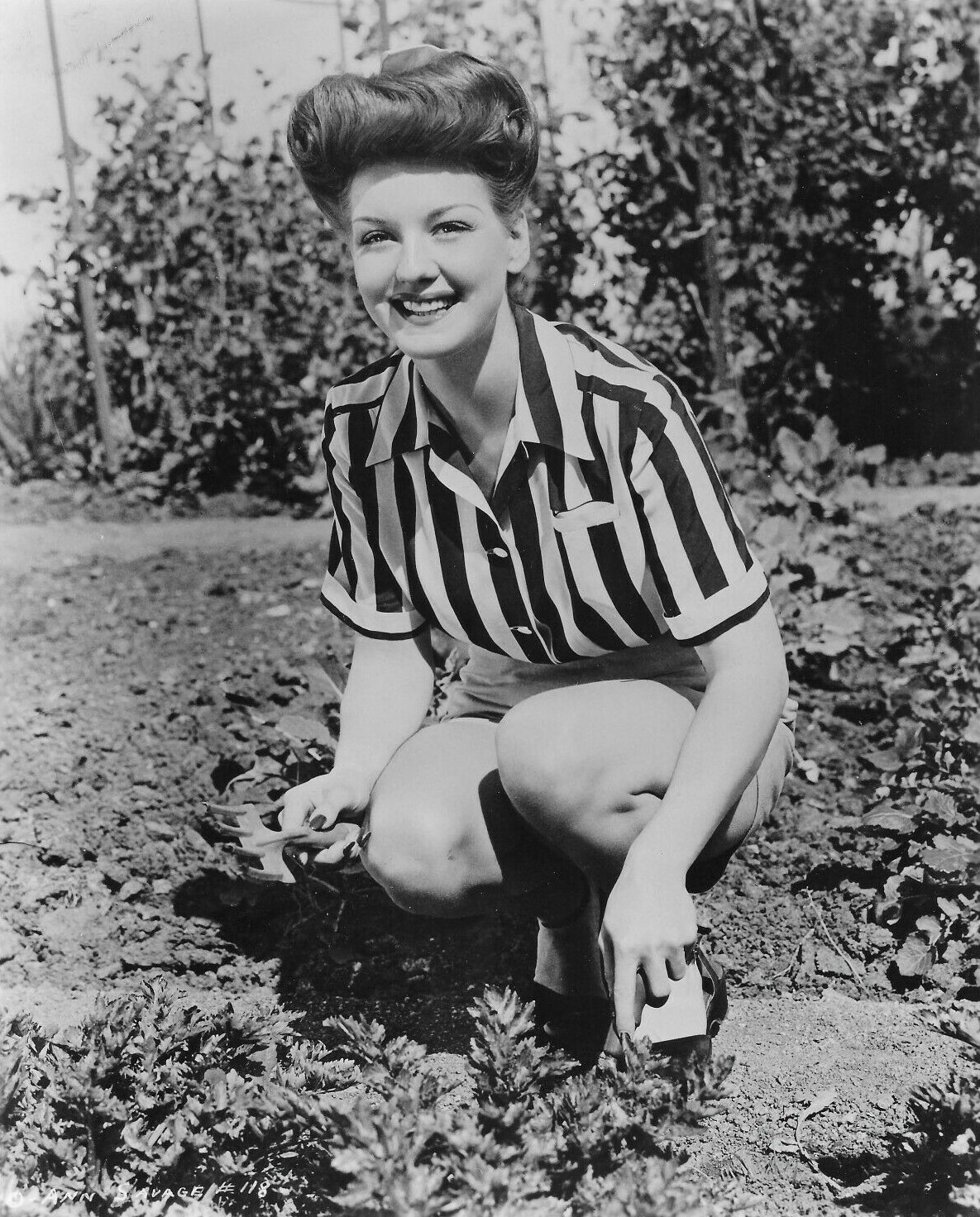 Ann Savage cultivates her own Victory Garden, 1944